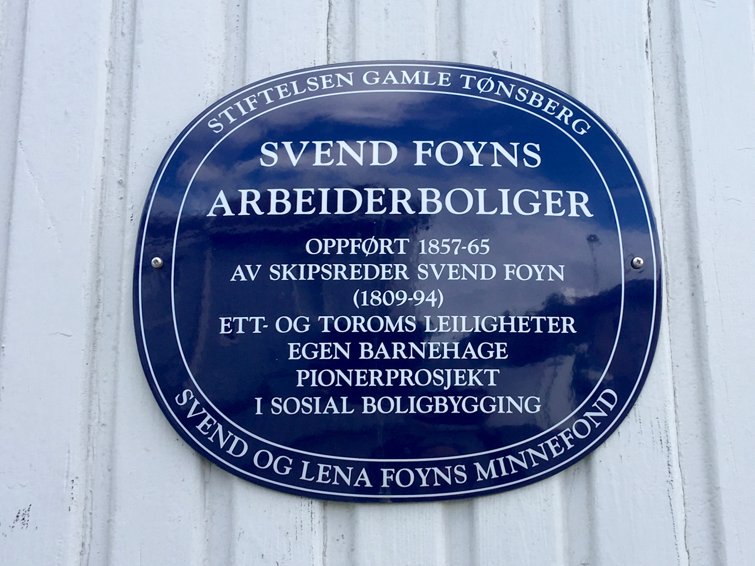 Blue plaque on "Svend Foyns arbeiderboliger" worker's house in Tønsberg, Norway. Built 1857–65.